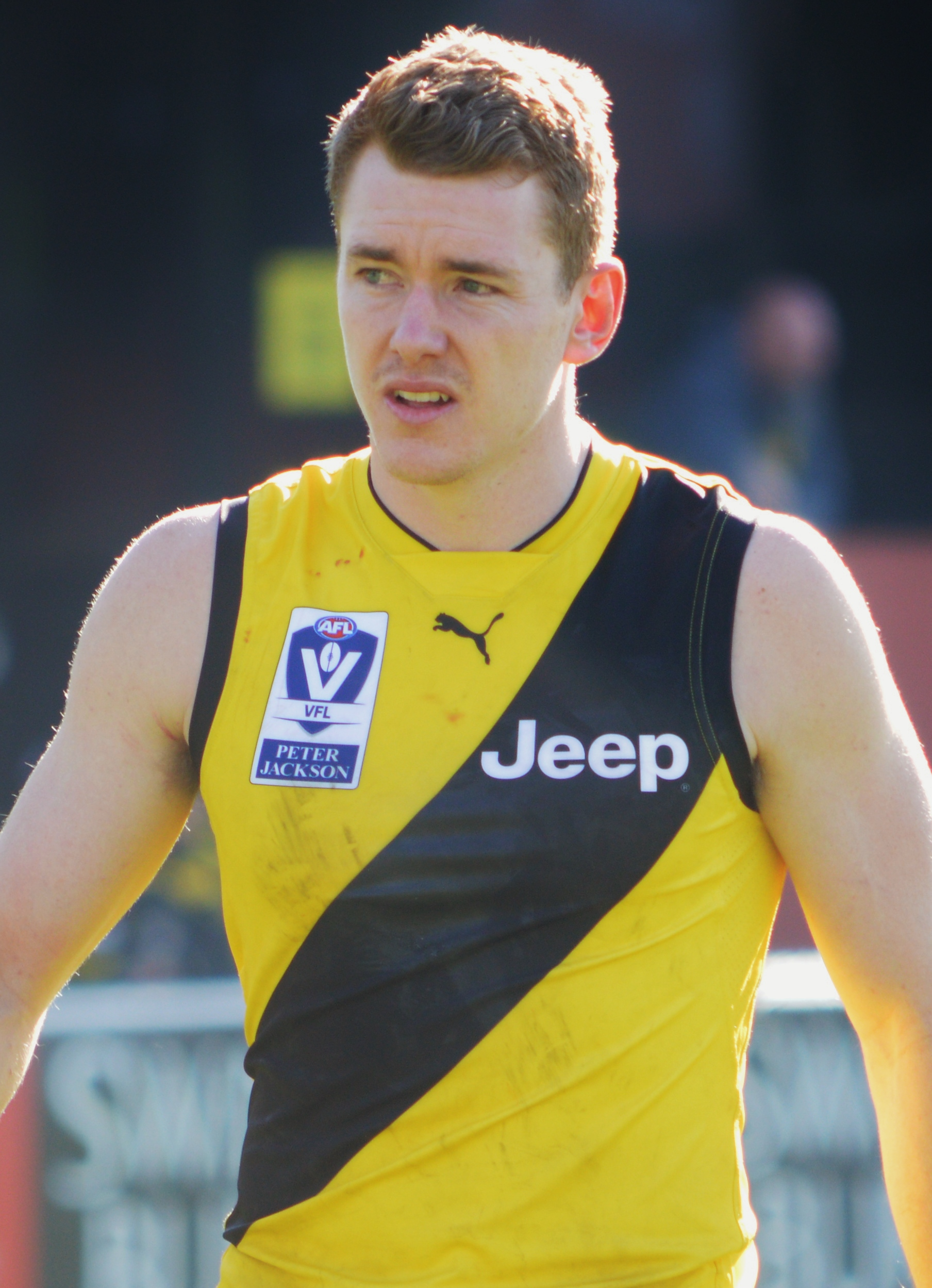 Jacob Townsend during the round 8, 2018 VFL match between Richmond and Coburg at Punt Road Oval.